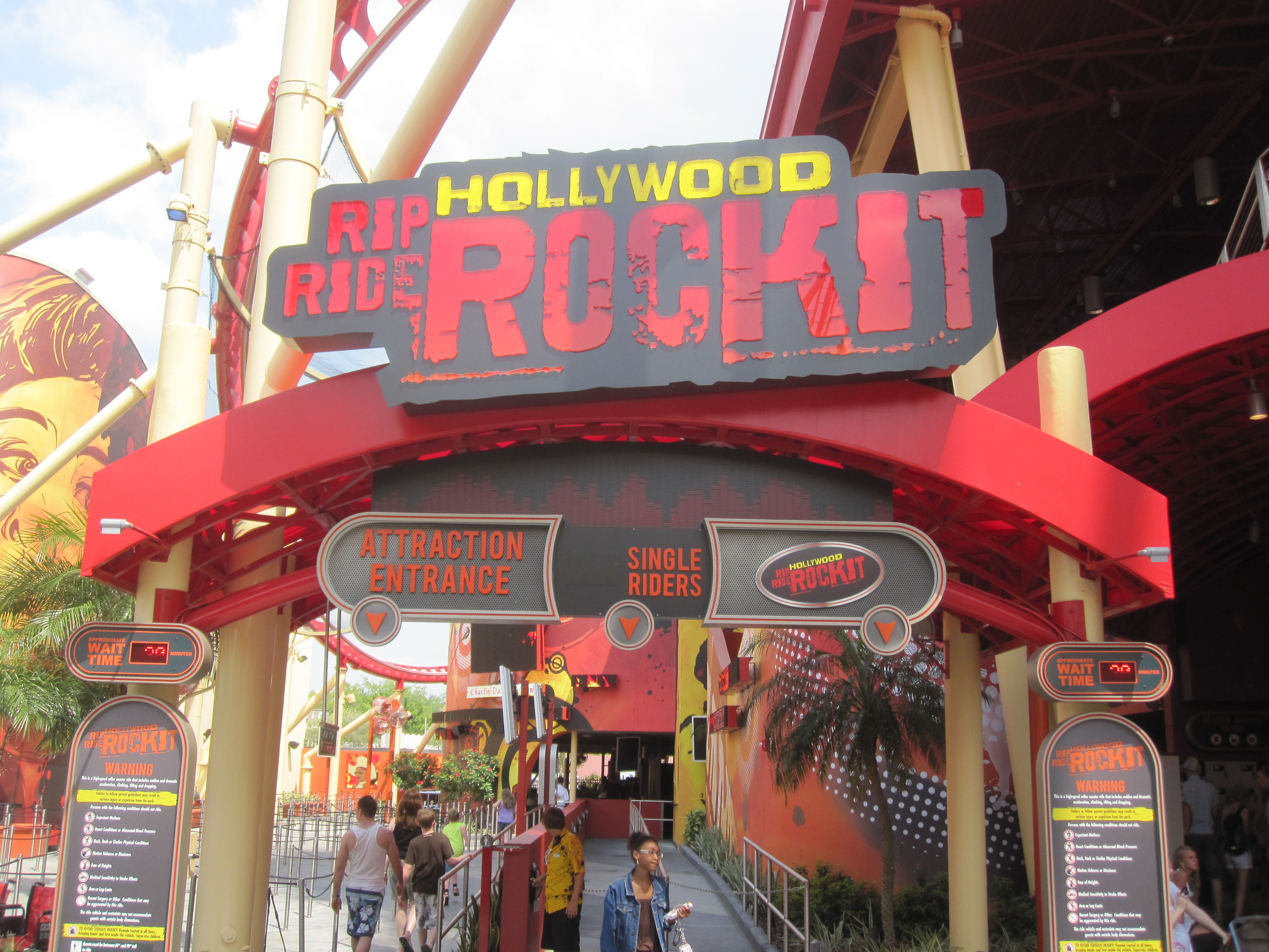 Universal Studios, Orlando.